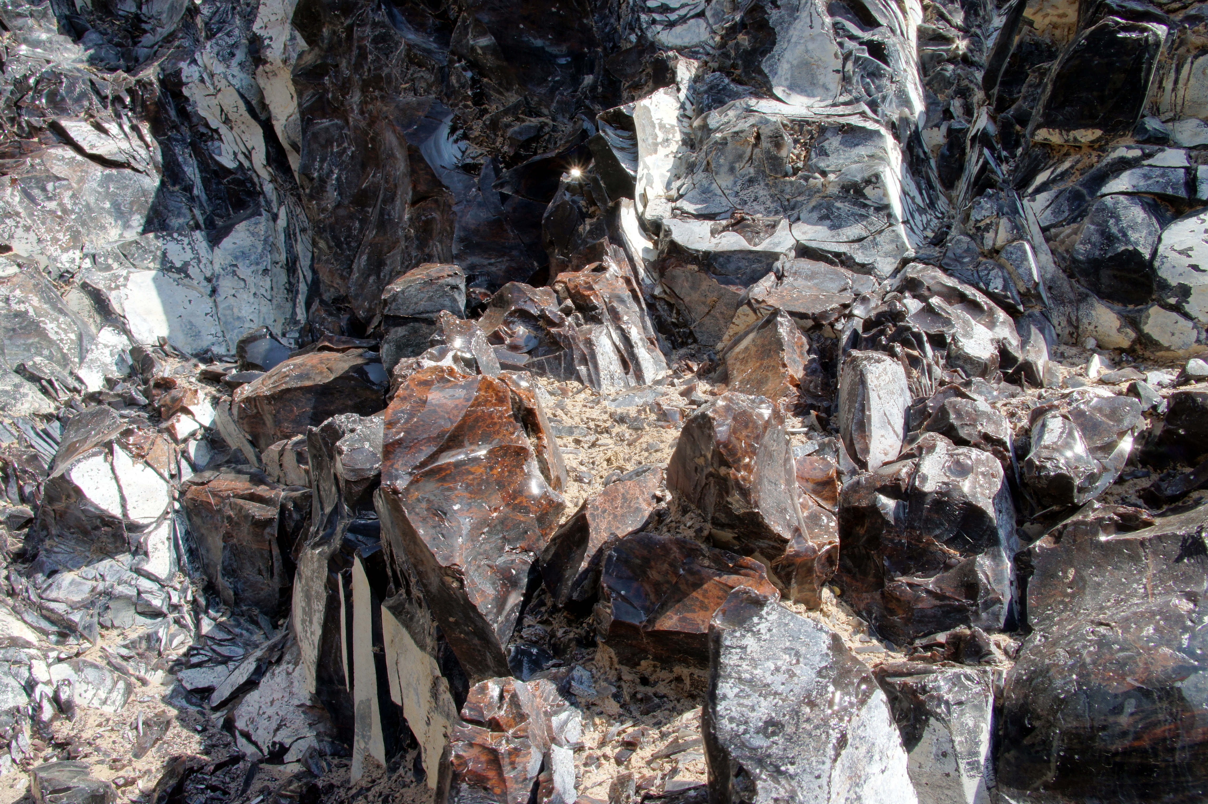 Obsidian, Armenia